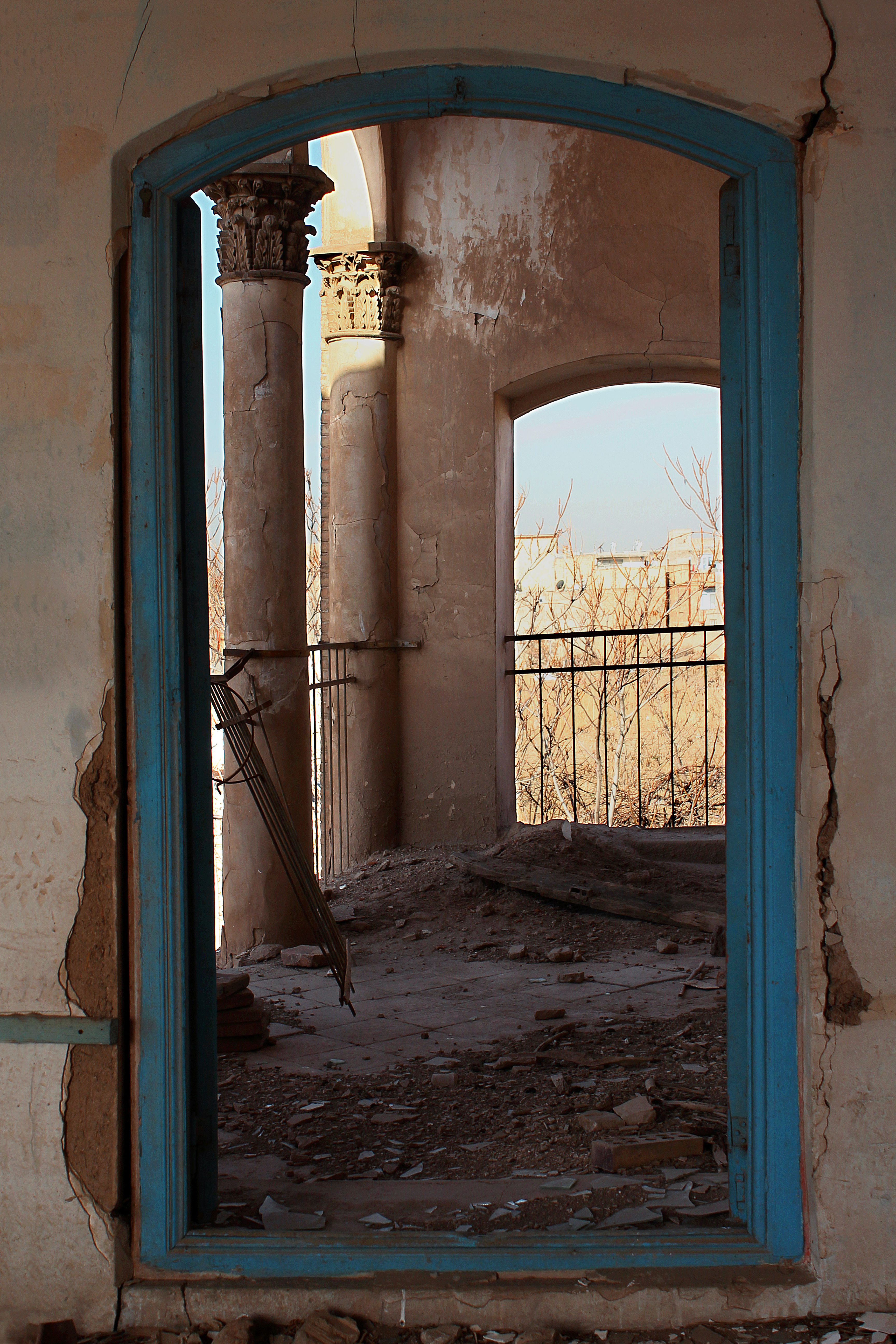 Kalantar House in Tabriz 2013.